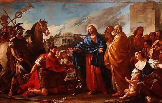 The Centurion Kneeling at the Feet of Christ or Jesus Healing the Son of an Officer